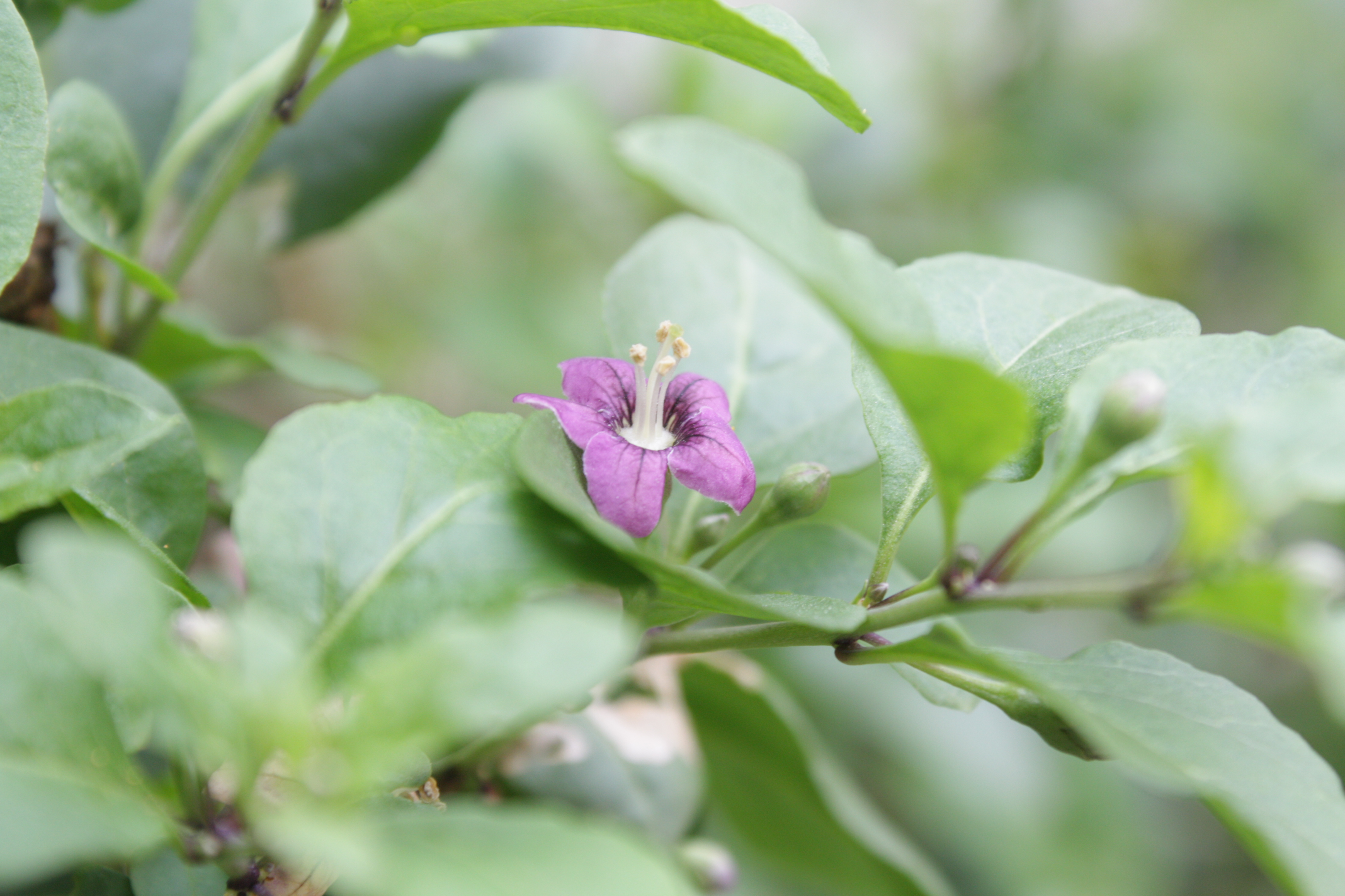 Lycium chinense